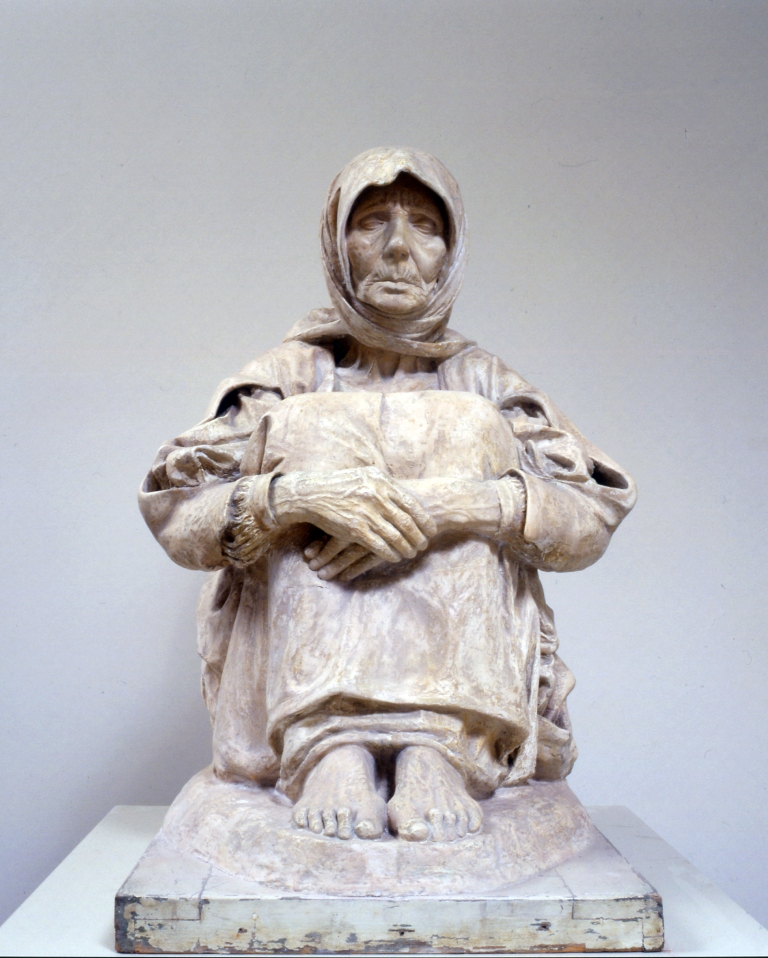 The mother of the killed - Francesco Ciusa, Civic art Gallery